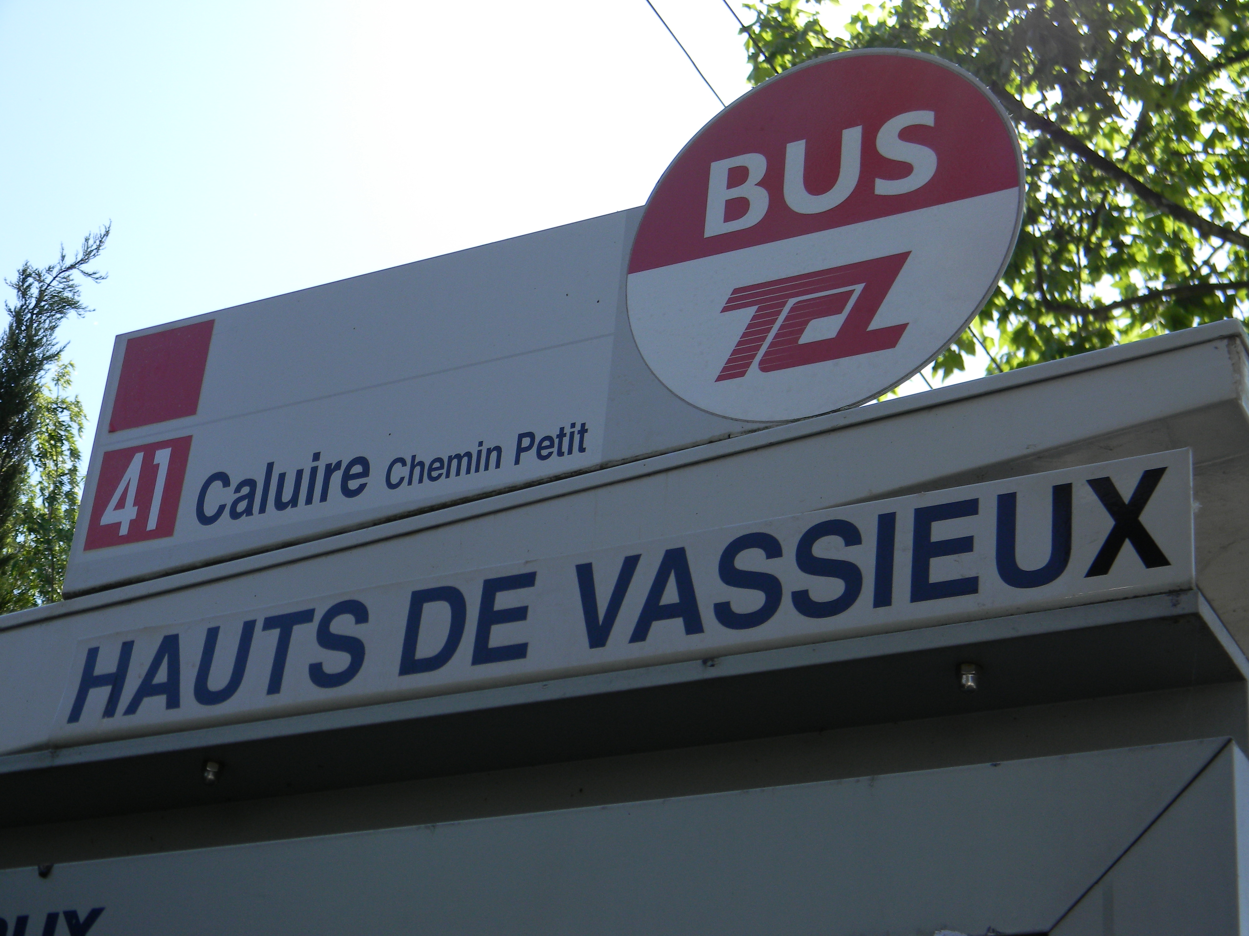 Bus stop in Caluire-et-Cuire, Vassieux highs